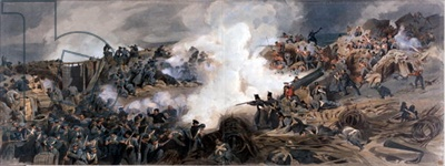 Storming of the Great Redan, Sebastopol, 1855, from 'The Officers' Portfolio of the Striking Reminiscences of the War from Drawings, Photographs and Notes, taken on the spot, made into Complete Pictures by Eminent Artists', 1855 (colour litho)